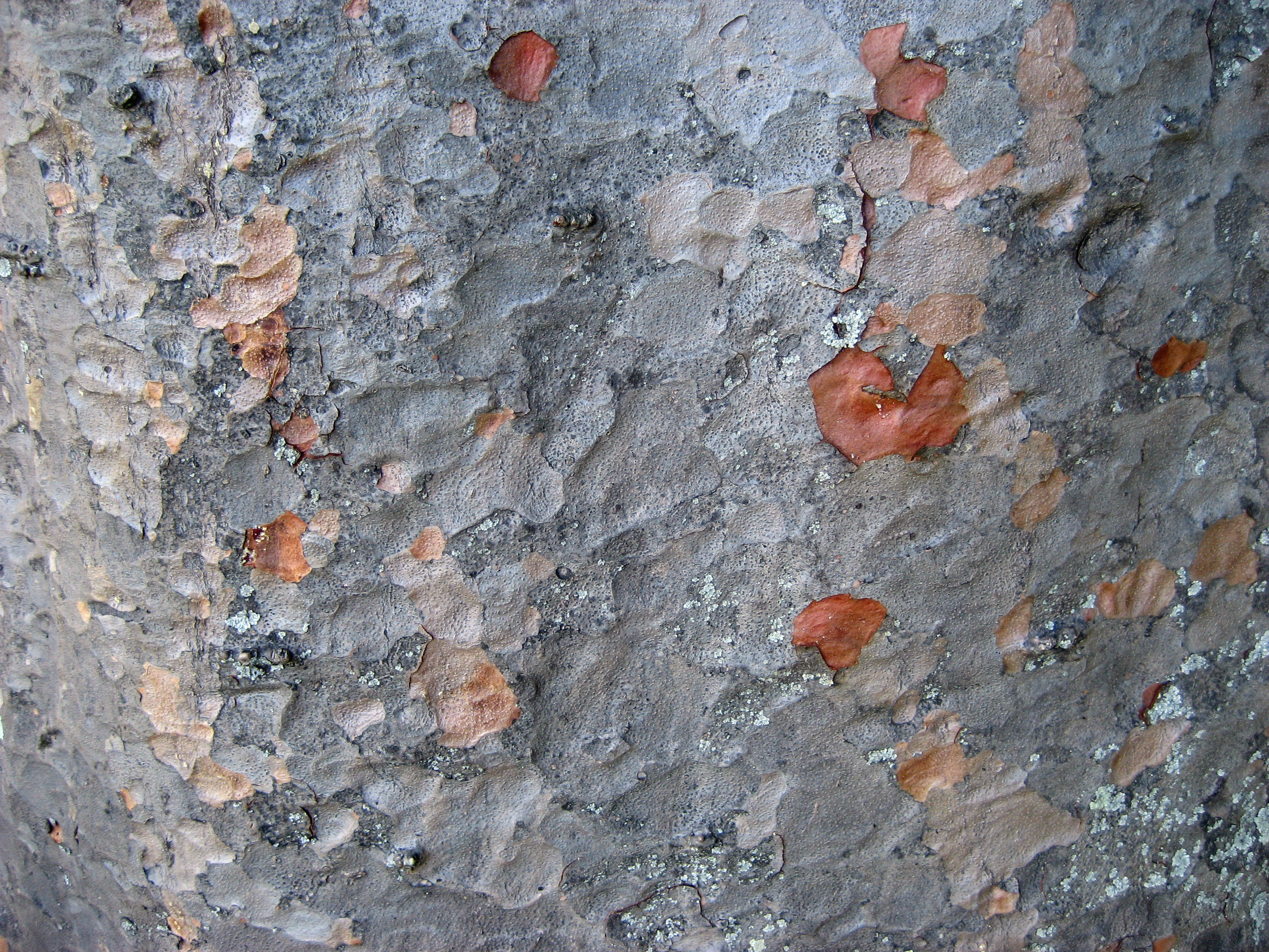 Bark of Agathis robusta, Auckland, New Zealand